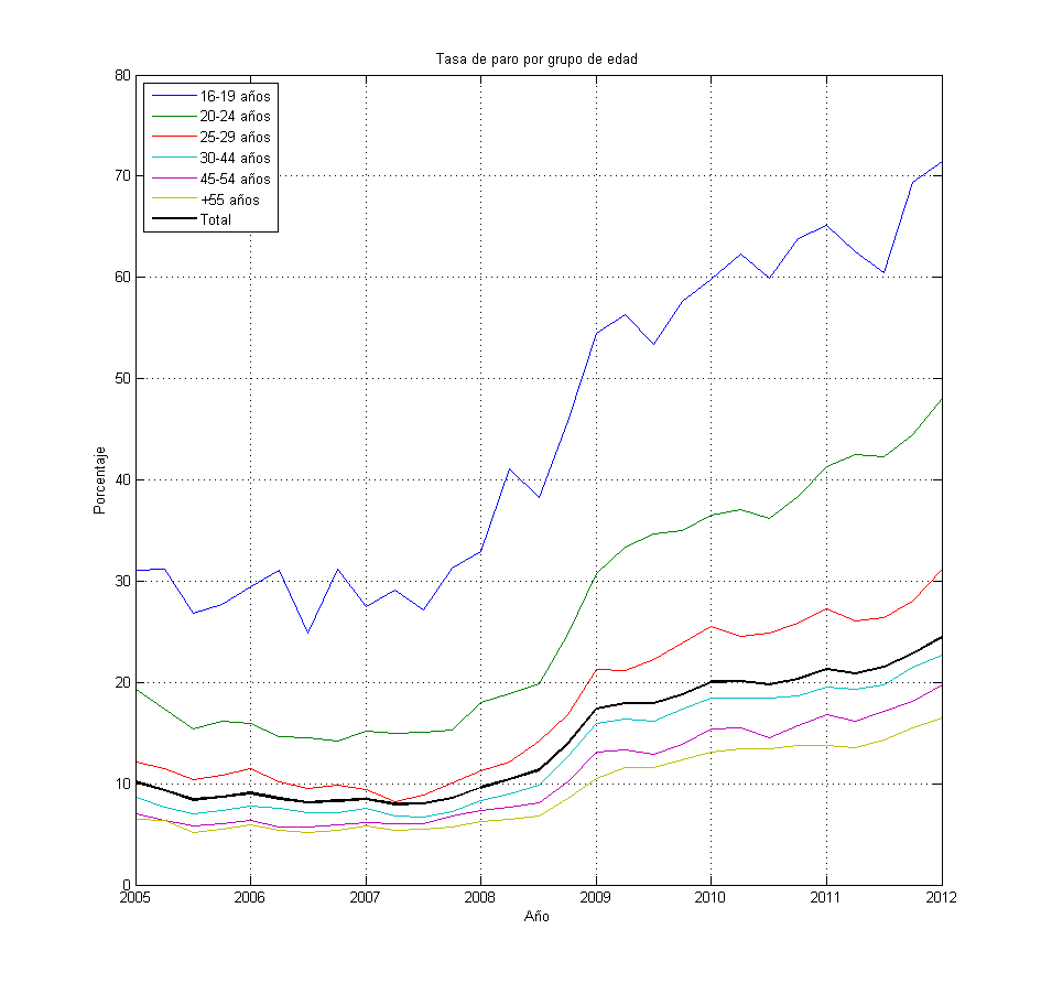 Unemployment rate by group of age (2005-2012)